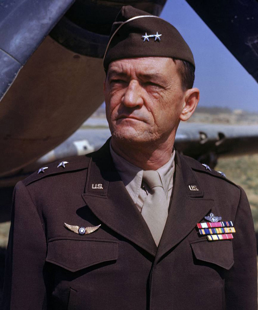 Lieutenant General Claire Lee Chennault (September 6, 1893 – July 27, 1958, shown as Major General in this photo), was an American military aviator. A contentious officer, he was a fierce advocate of "pursuit" or fighter-interceptor aircraft during the 1930s when the U.S. Army Air Corps was focused primarily on high-altitude bombardment.